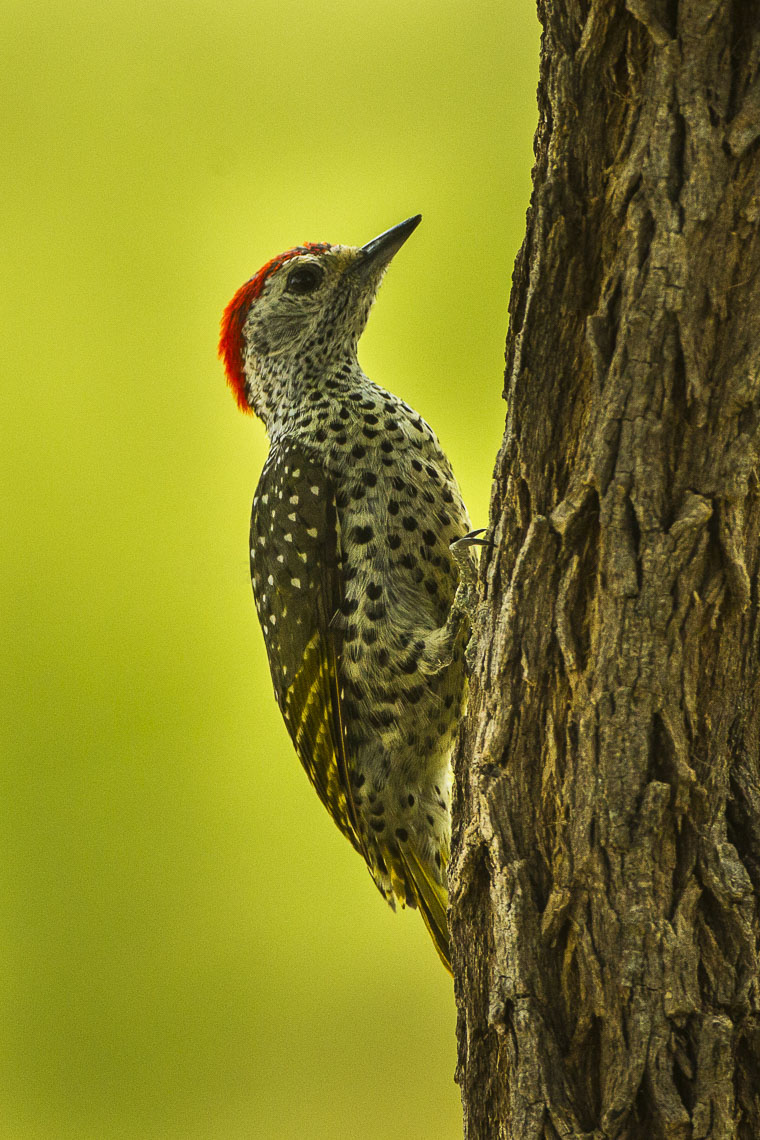 Green-backed Woodpecker - Malawi_S4E3705